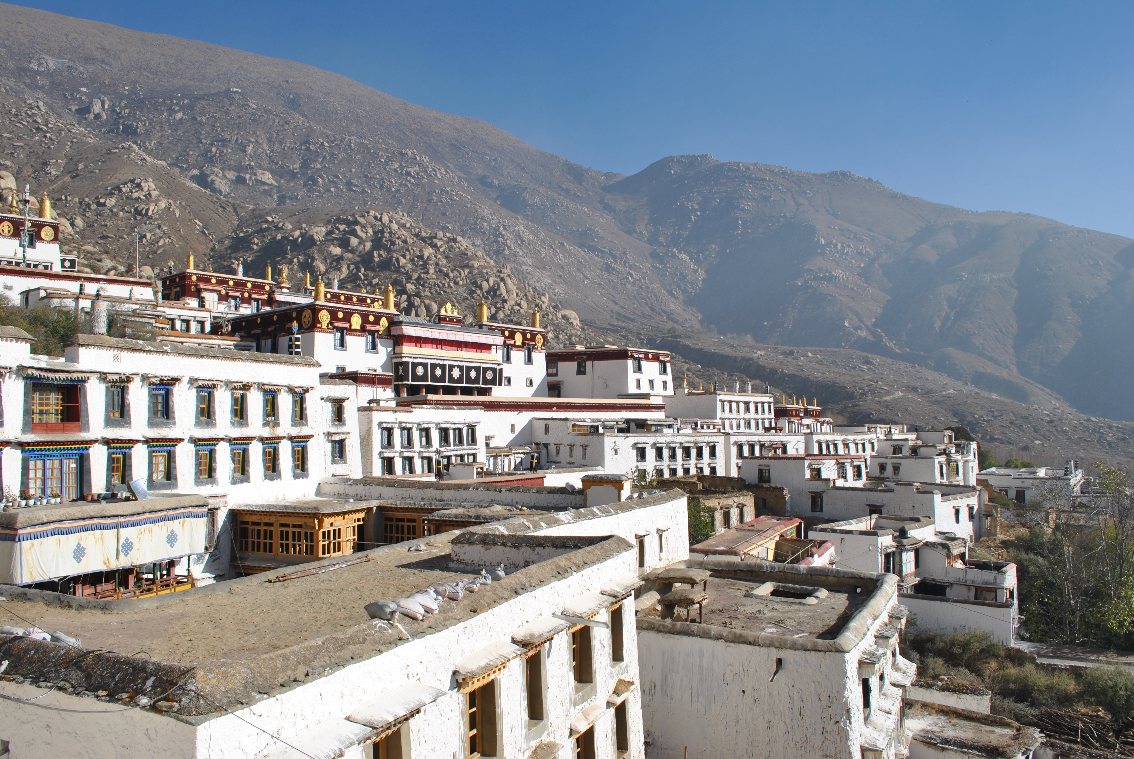 Drepung monastery in Tibet